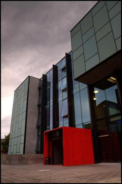 Entrance of Het Warandep'ant in Turnhout